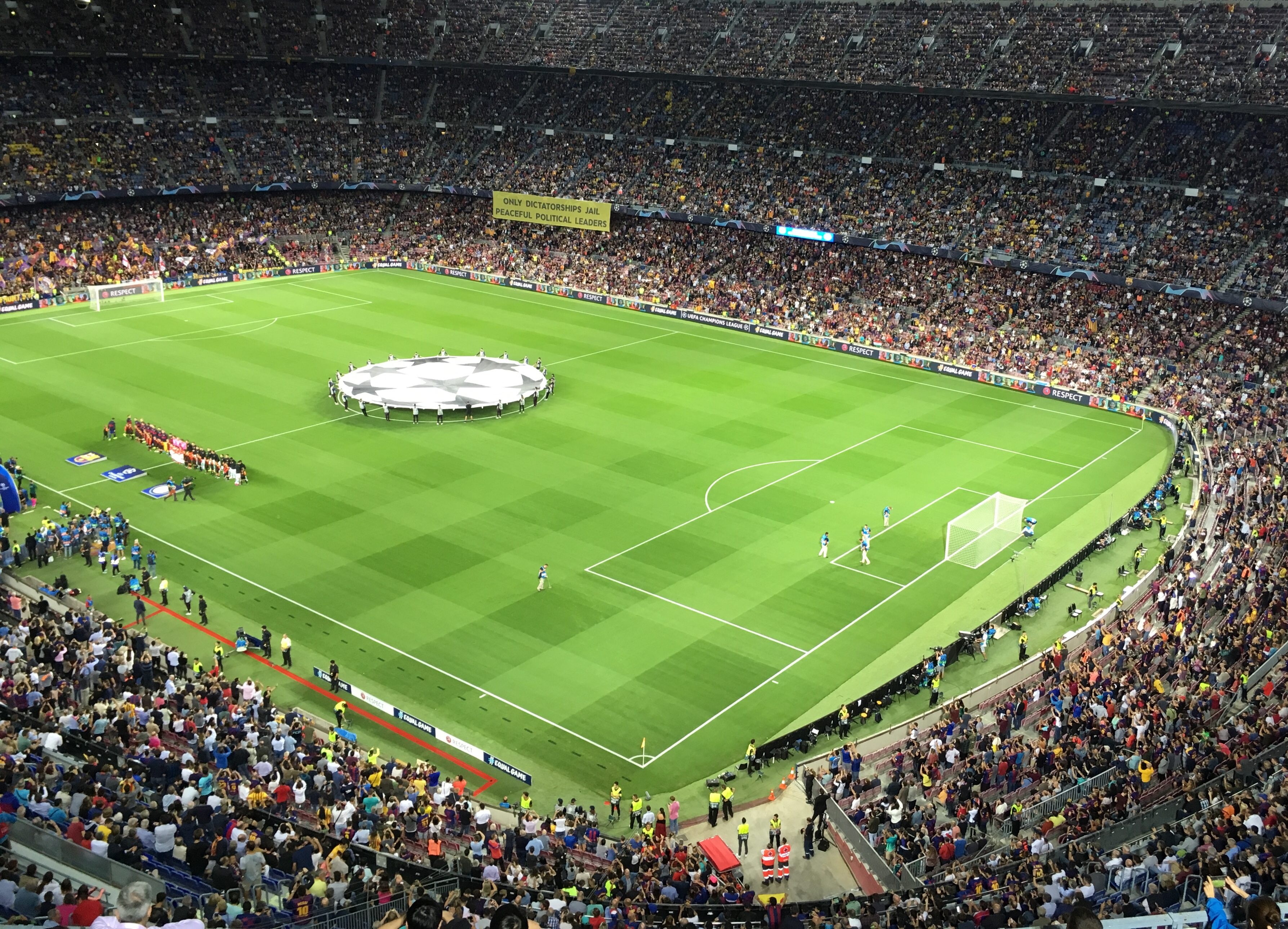 "Only dictatorships jail peaceful political leaders" -banner in the opening ceremony for FC Barcelona vs. Inter game in Camp Nou, Barcelona.